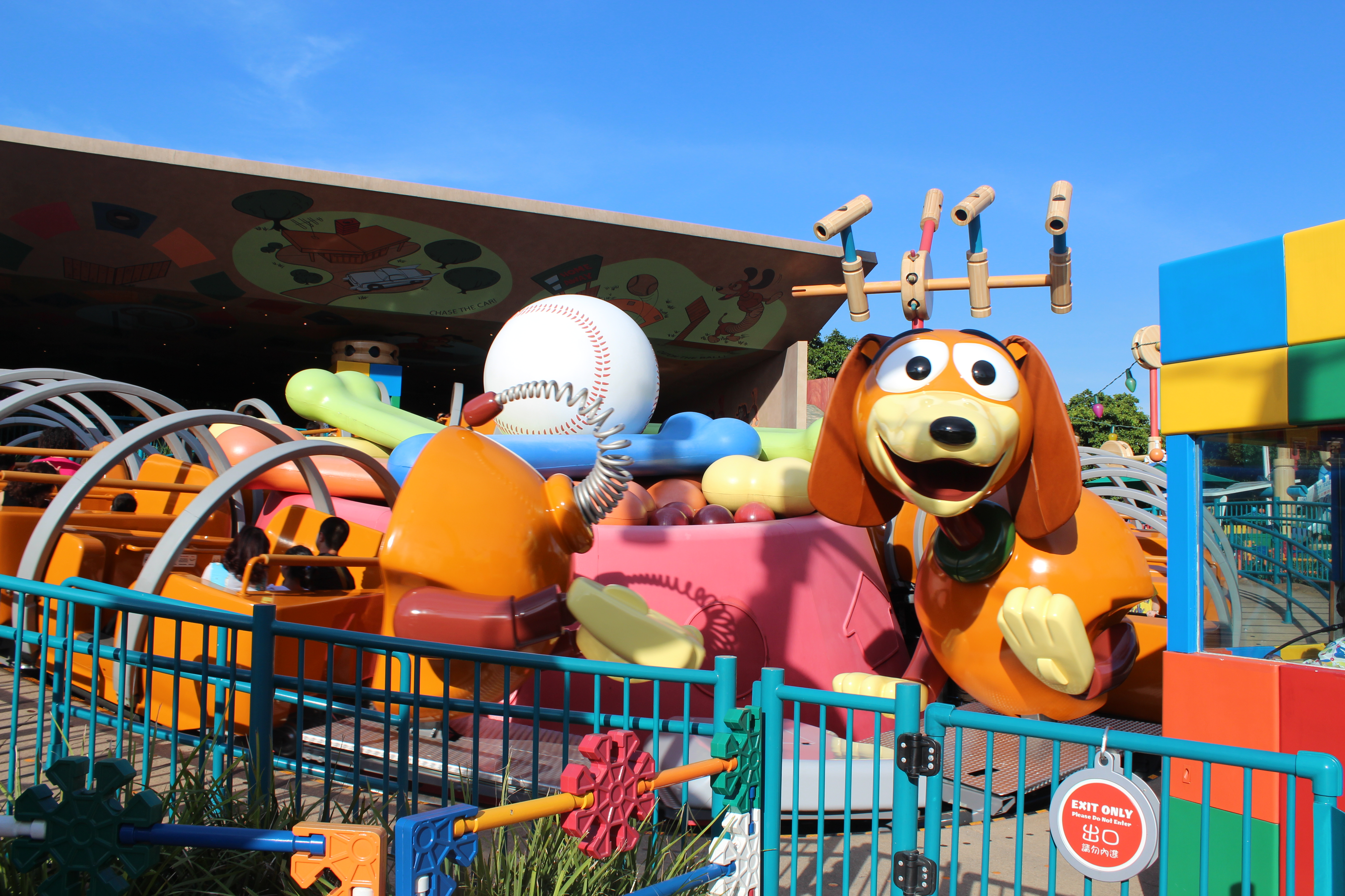 Toy Story Land at Hong Kong Disneyland, Hong Kong